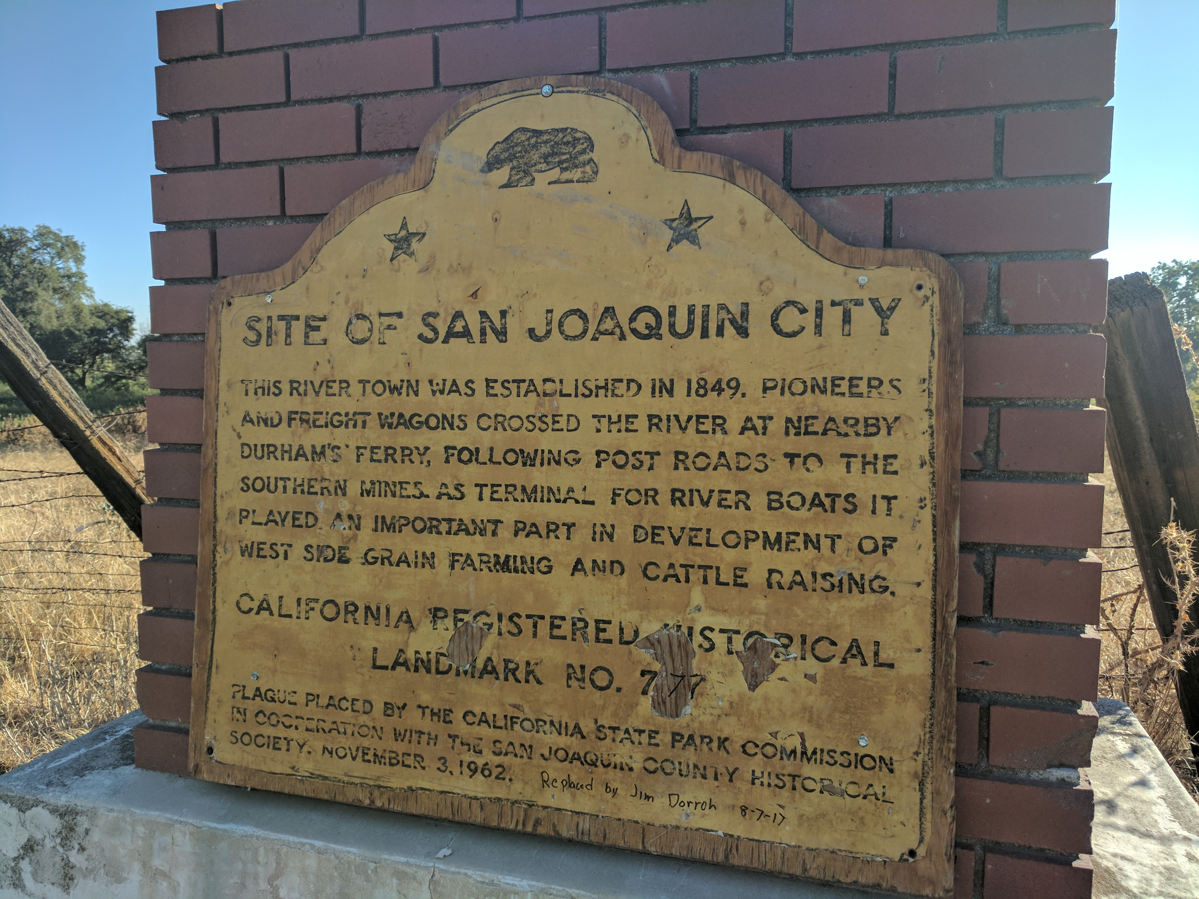 Paper representation of the original bronze historical marker plaque.